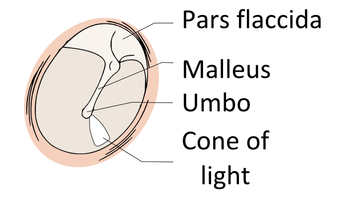 View-normal-tympanic-membrane